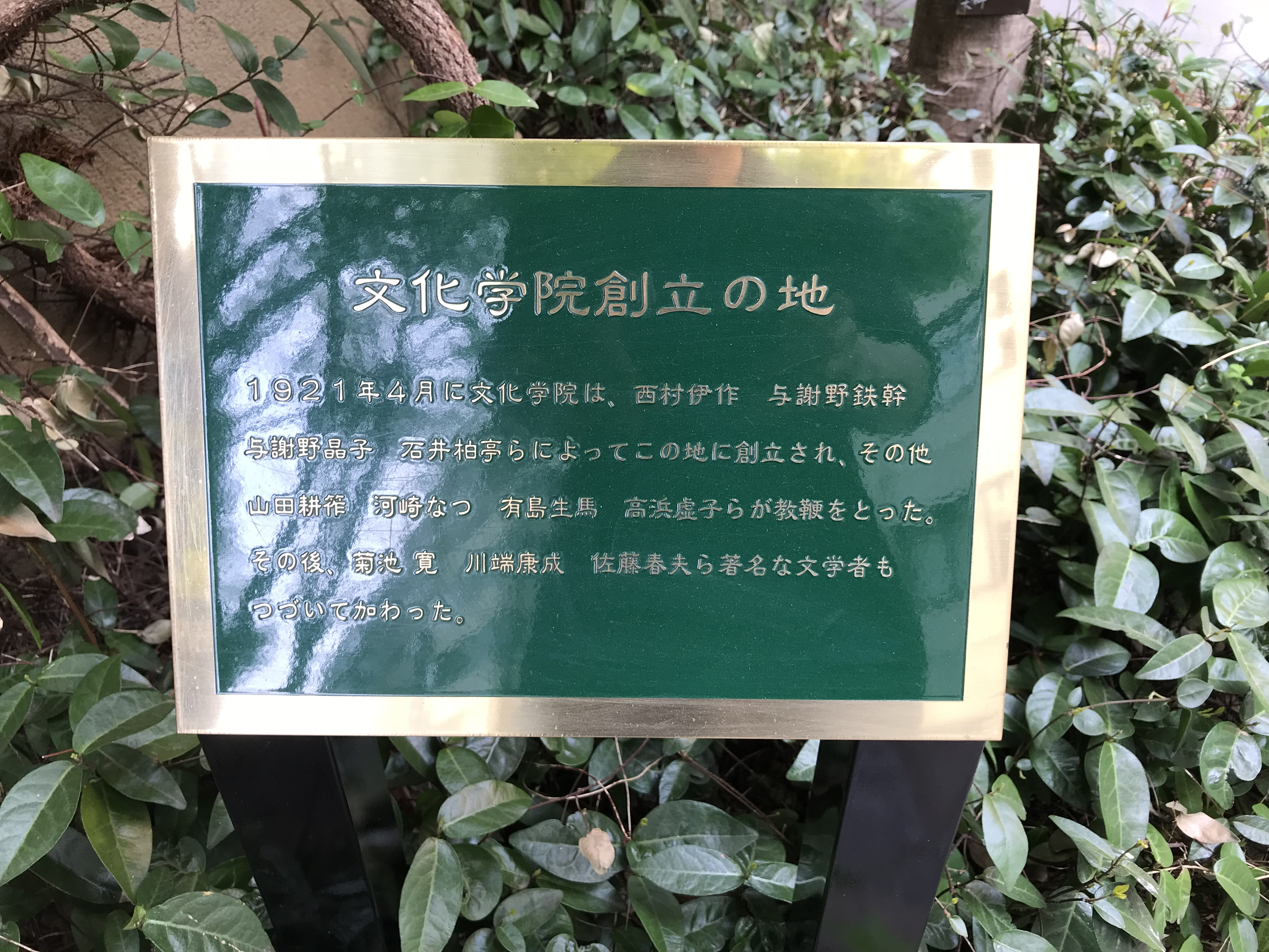 the origin of Bunka Gakuin